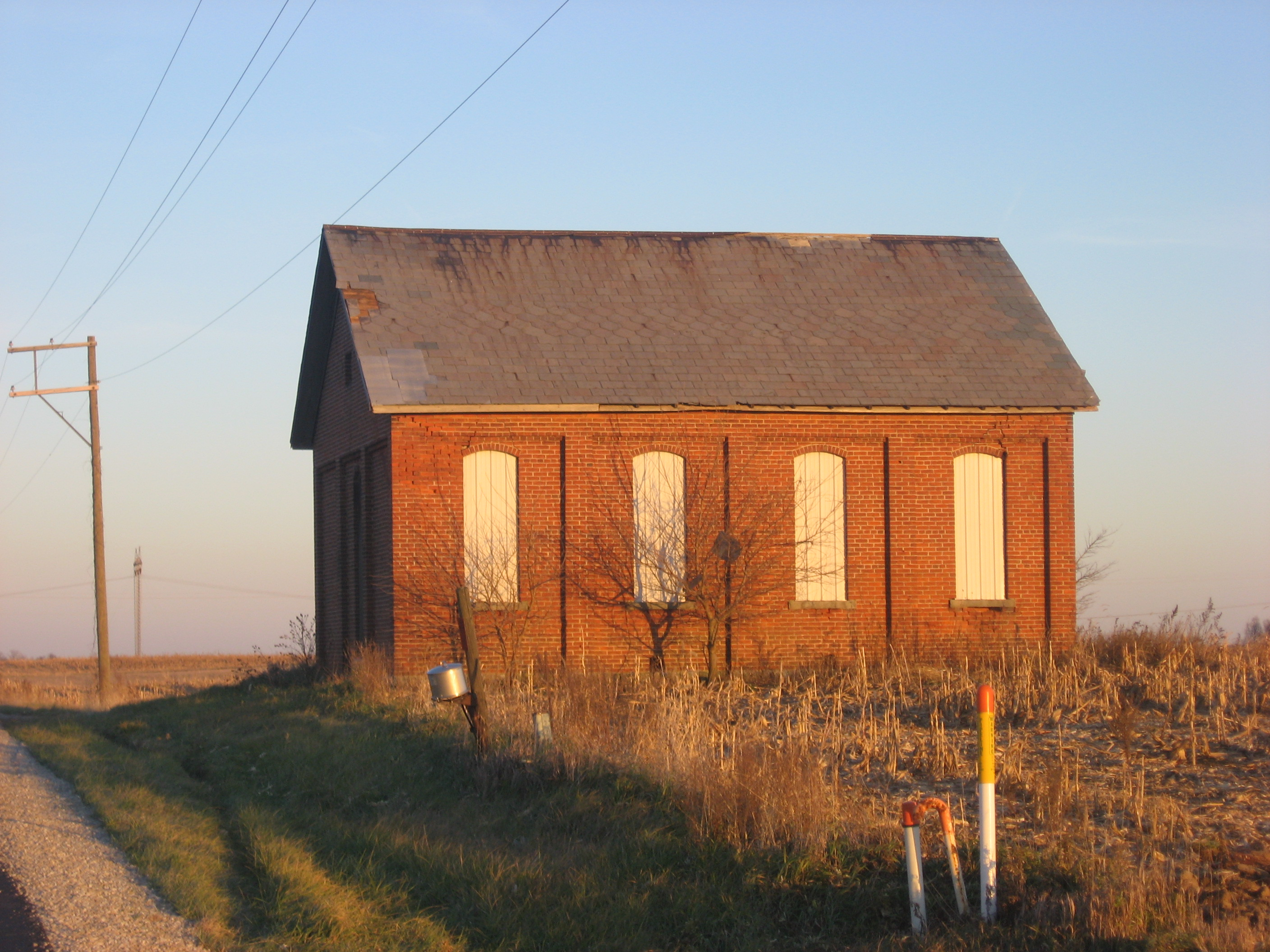 Western side and front of a former schoolhouse located on the southern side of State Route 274 in Dinsmore Township, Shelby County, Ohio, United States.